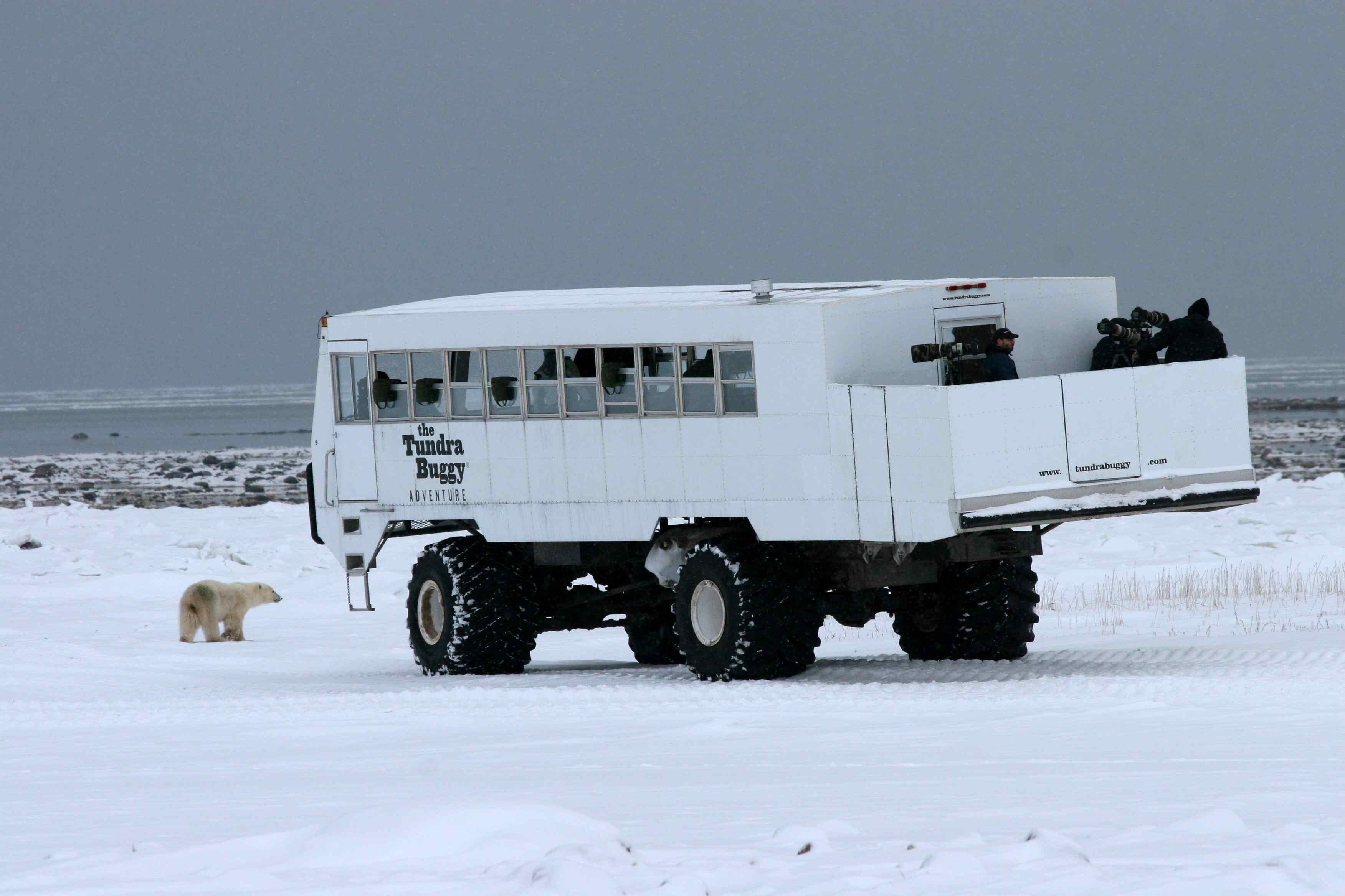 Bear with Buggy